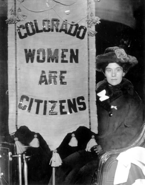 A young woman suffragette sits in a chair near a banner reading "Colorado Women are Citizens." The woman wears a fur coat, hat, and leather gloves. Tassels dangle from the top and bottom of the banner.